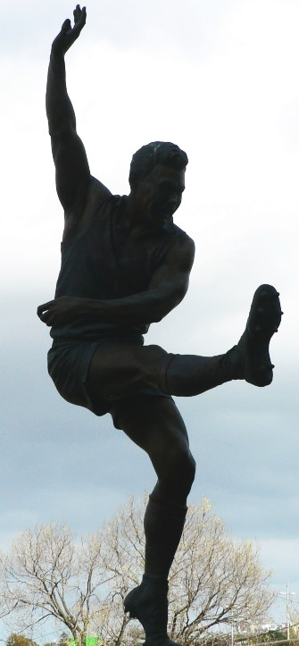 Statue of Ronald Dale Barassi at the Parade of Champions, Melbourne Cricket Ground.